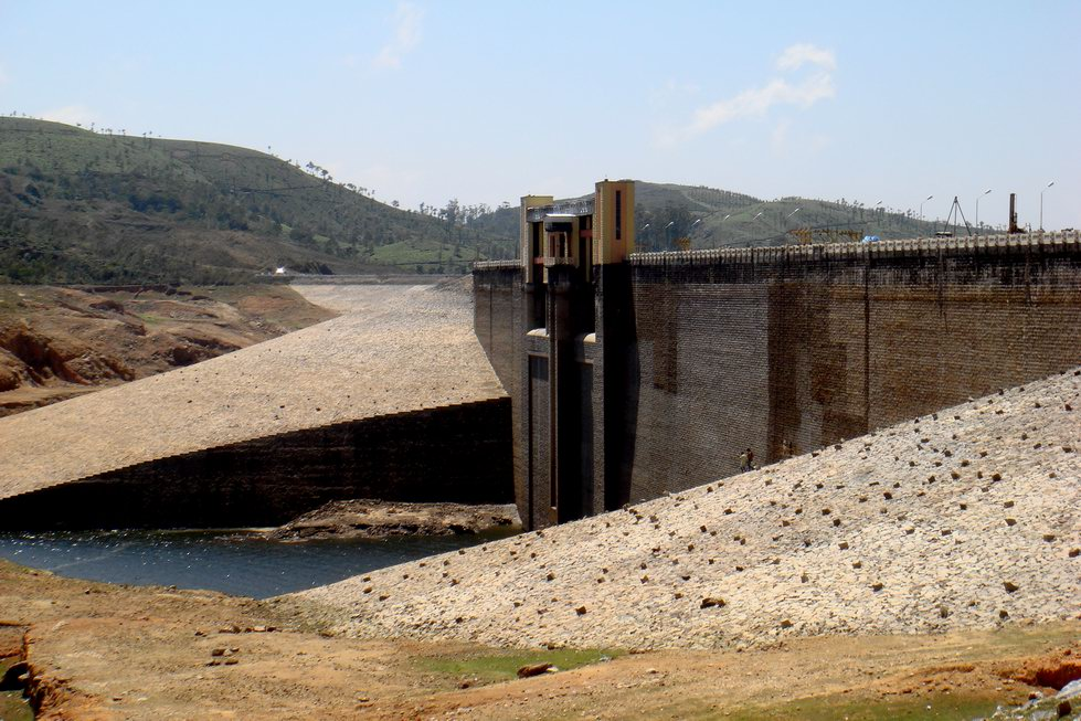 Catchment area view